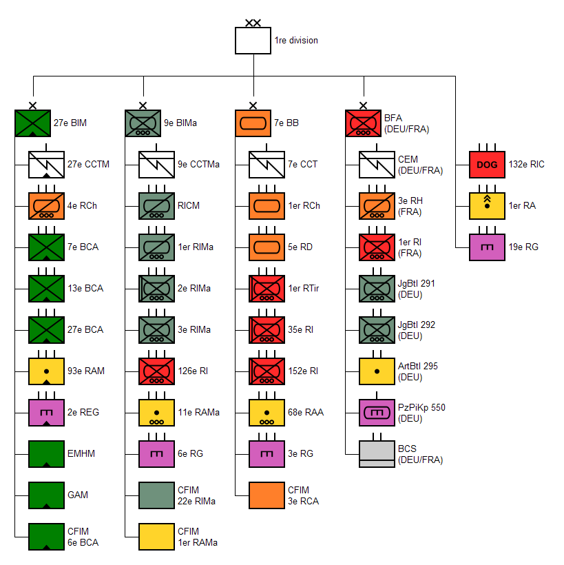 Organizational chart of the 1re division (Armée de Terre).